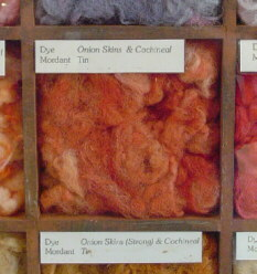 Wool dyed with cochineal, at Marsh Farm, Essex, England, photo taken by me.